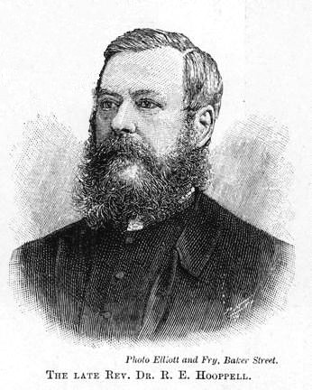 Portrait of Robert Eli Hooppell (1833–1895), English cleric and antiquarian.